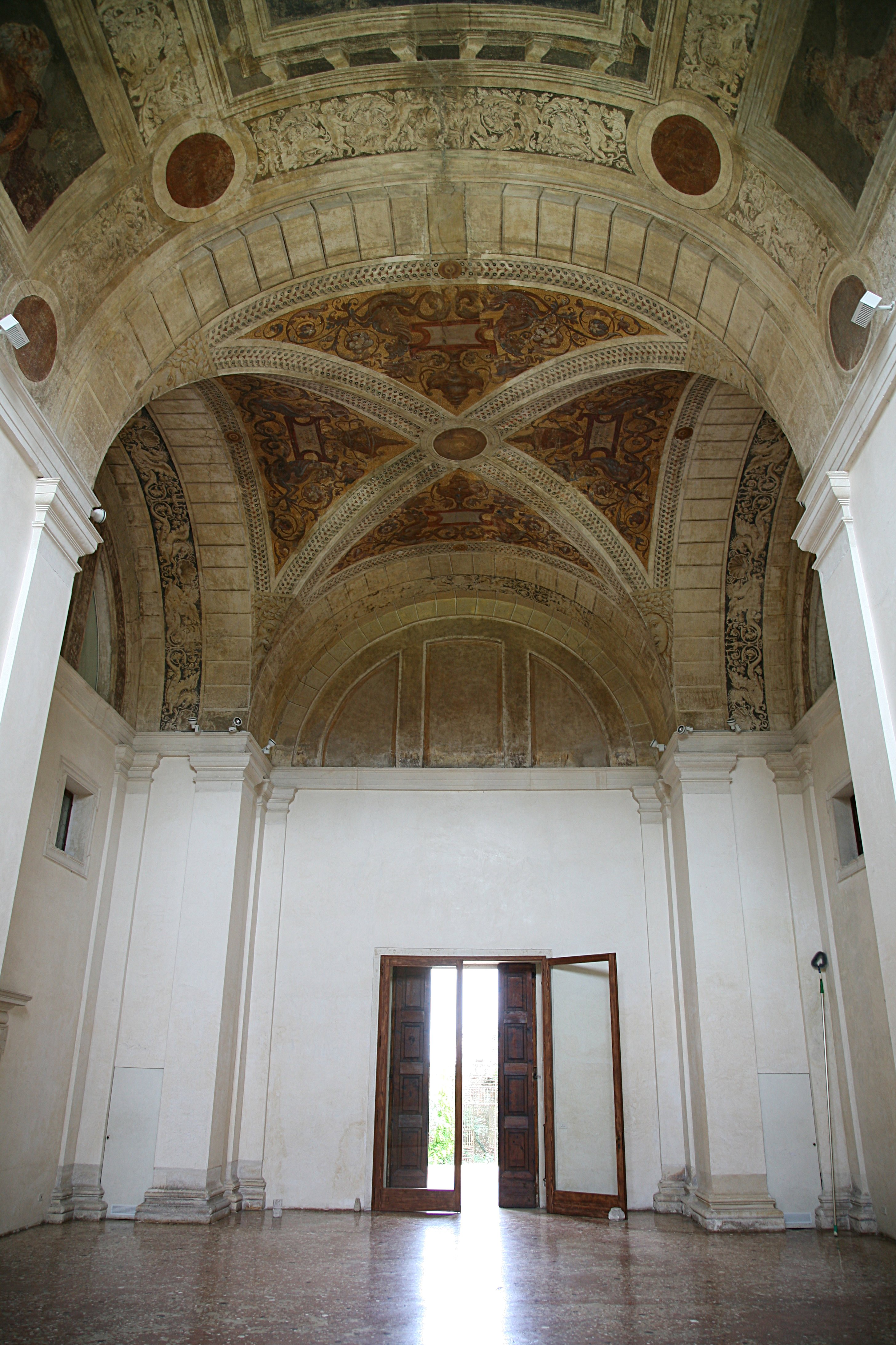 From the great hall in the villa Pisani at Bagnolo, by Andrea Palladio